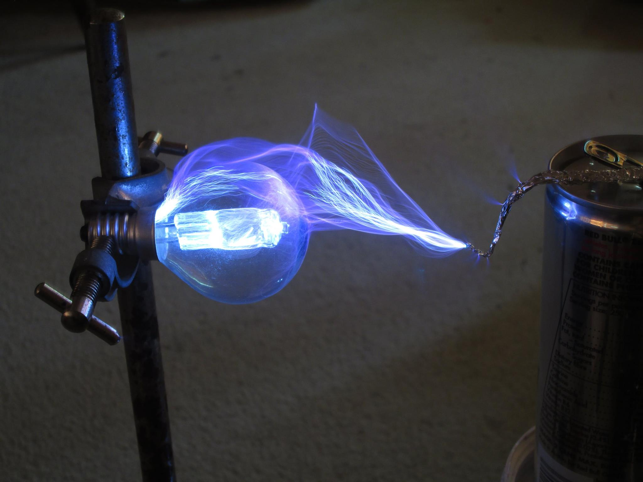 A Spark gap Tesla coil powered by a ZVS-controlled Flyback transformer, striking a dead halogen bulb.